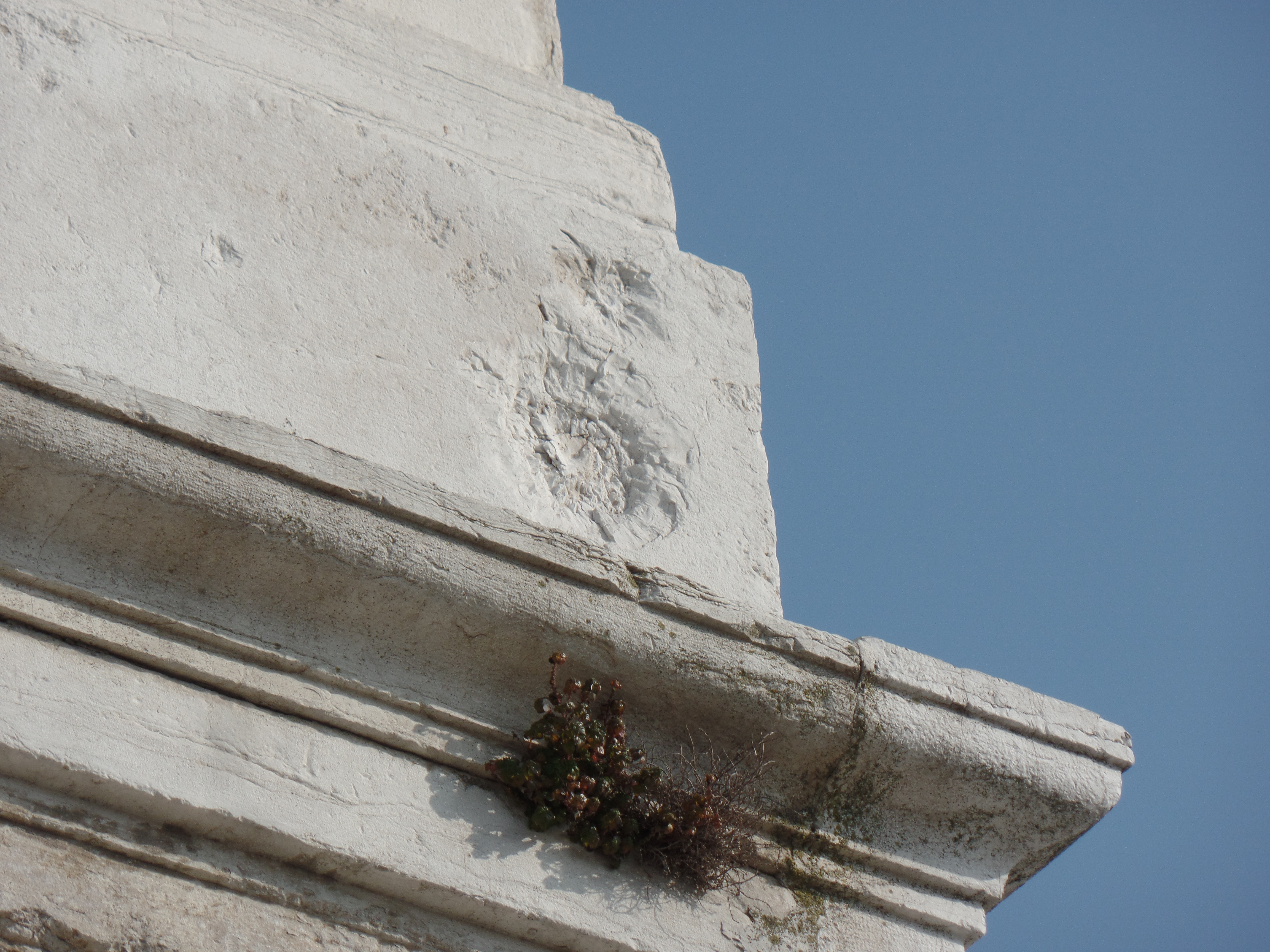 Porta Pia AN - lesioni da cannonate a palla